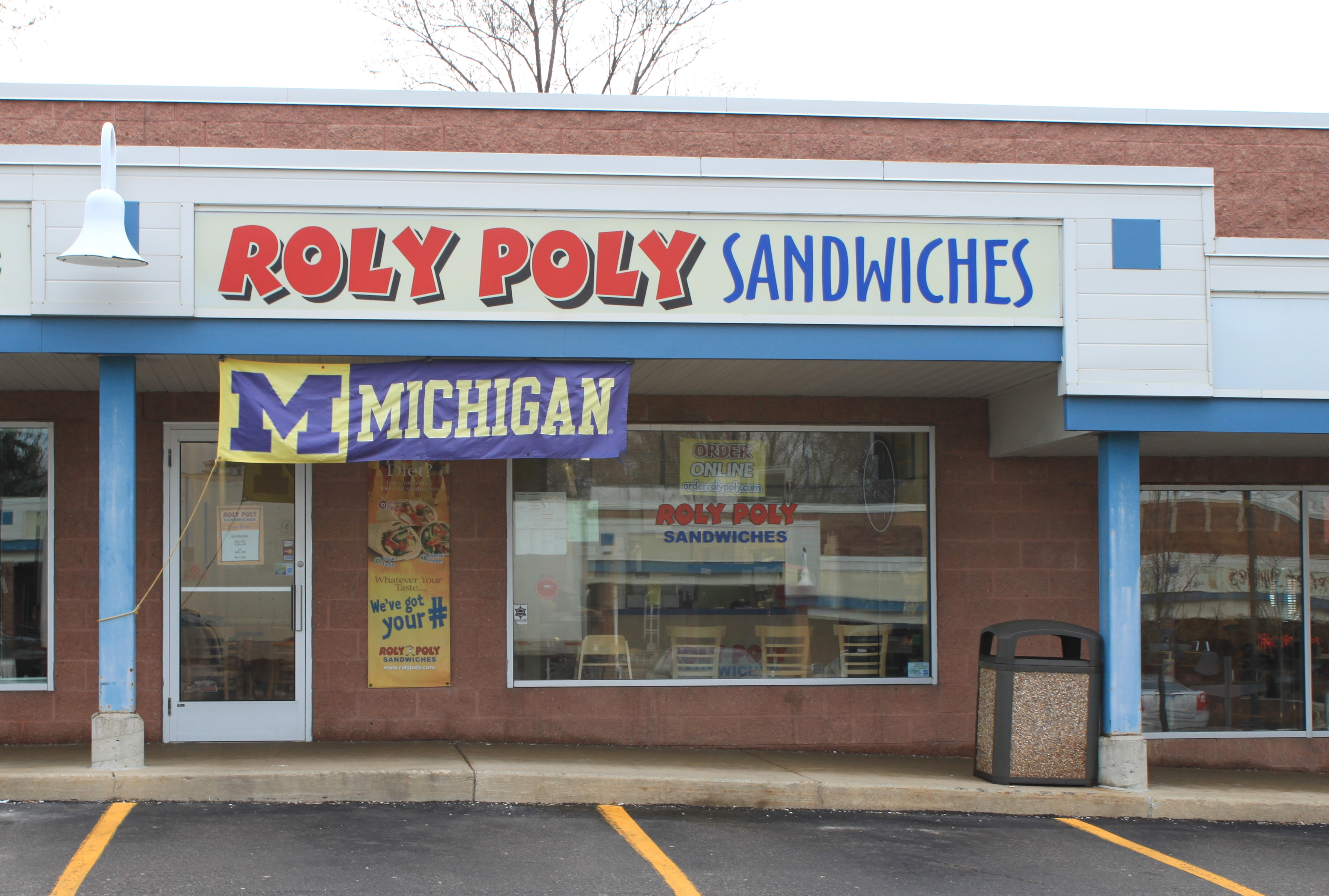 Roly Poly Sandwich shop, 2412 East Stadium Boulevard, Ann Arbor, Michigan.